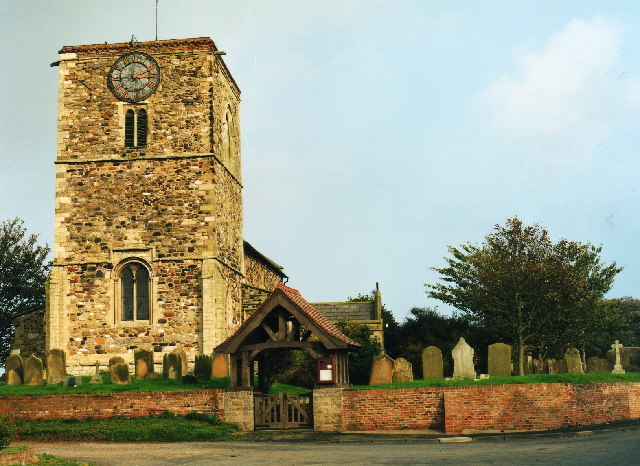 St Bartholemew's Church, Aldbrough, East Riding of Yorkshire, England.